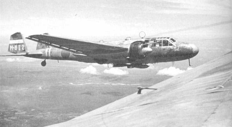 Mitsubishi G3M of Mihoro Kokutai as seen from the plane's tailcodes. This pre-1945 image is believed to be copyright-free, as it is a Japanese photograph older than 50 years. If copyright exists in this image, use here is asserted to be fair use.